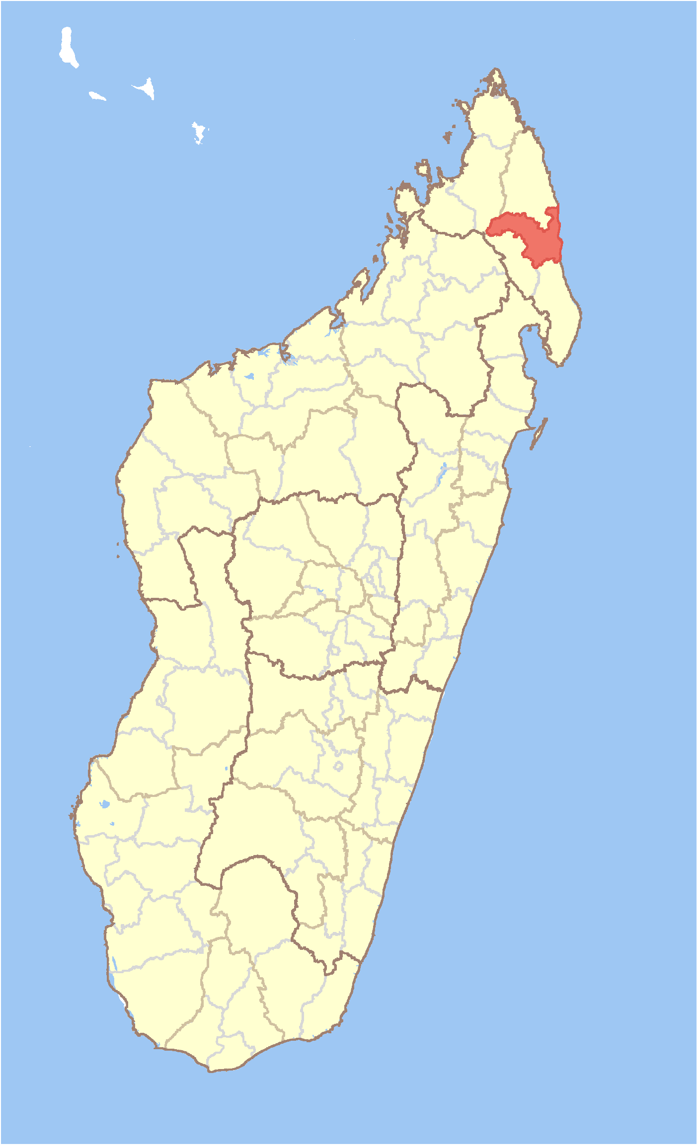 Map of Madagascar with Sambava District highlighted.